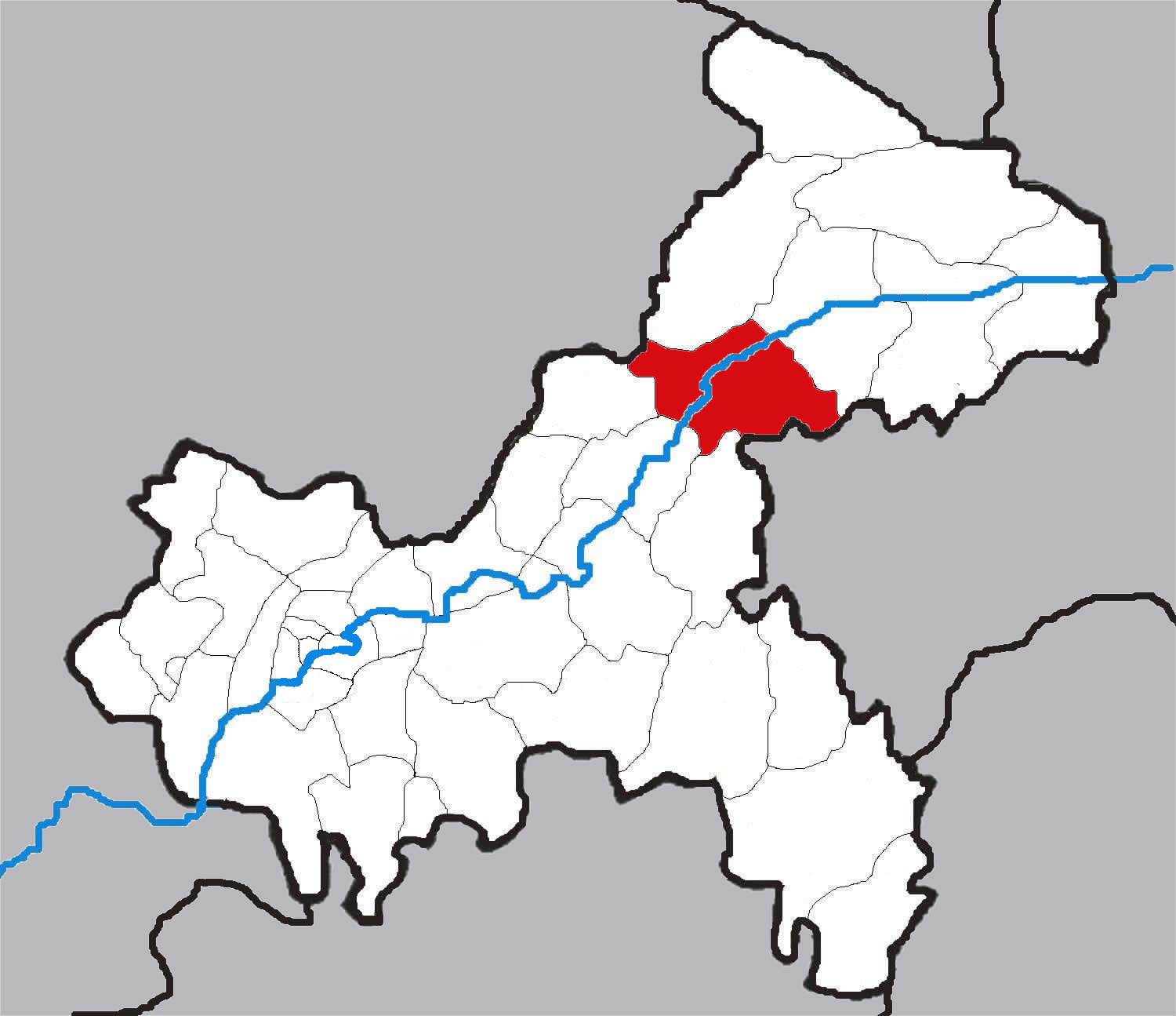 Administration maps of Chongqing, China